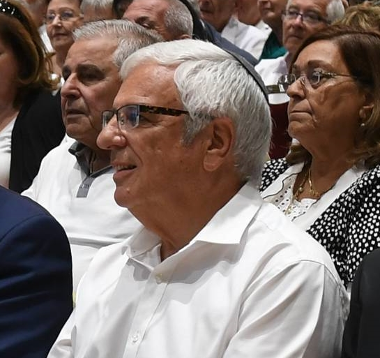 President Reuven Rivlin hosts an event in honor of the captives who were captured by the enemy and returned to Israel. Wednesday, September 7th, 2017.